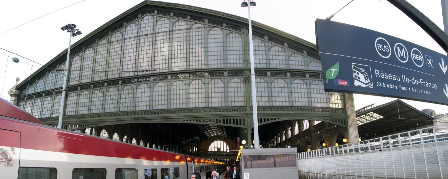 View of Paris Gare du Nord